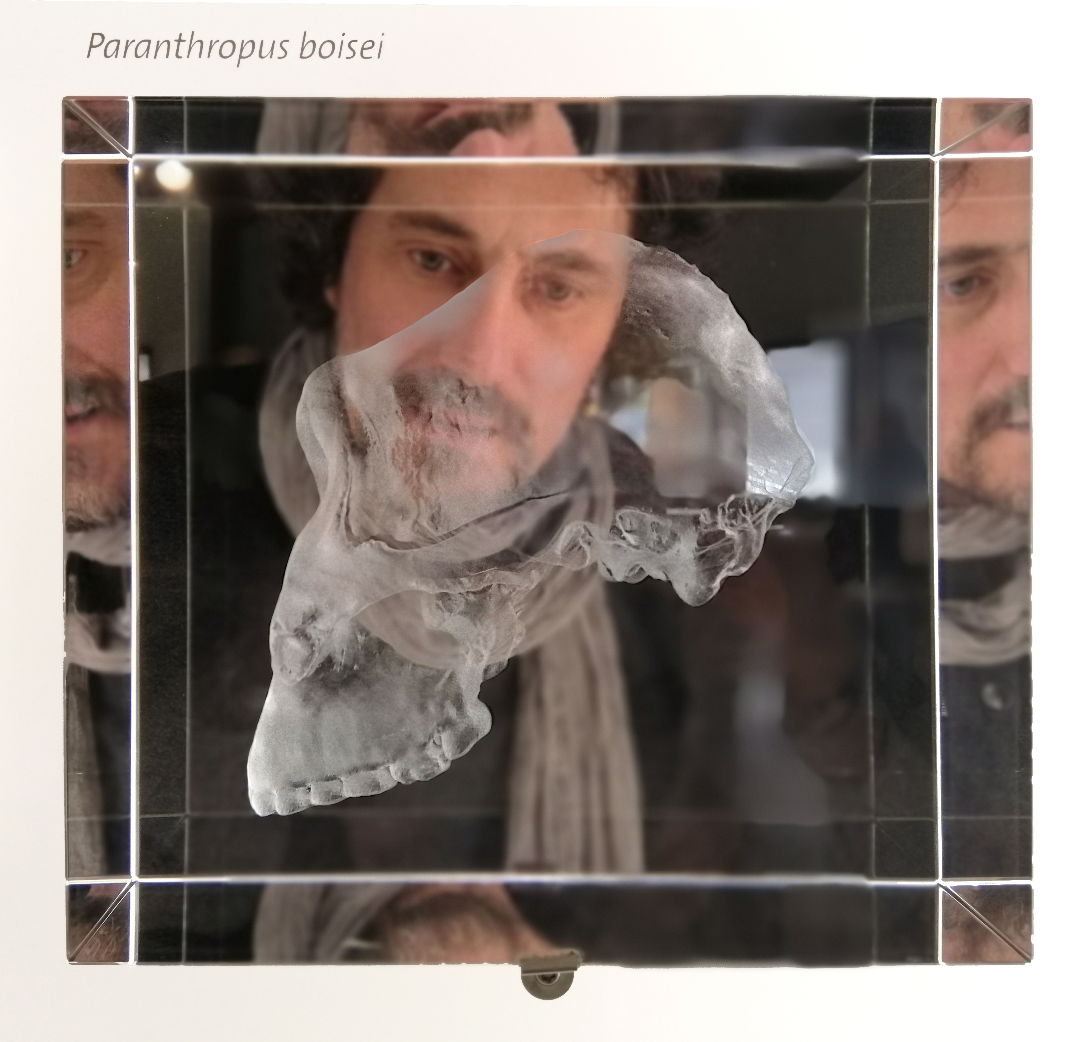 Hologram of Paranthropus boisei. Vienna Natural History Museum. The paleoanthropologist Stefano Ricci. University of Siena